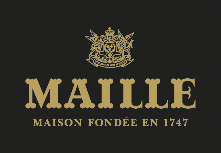 Maille logo